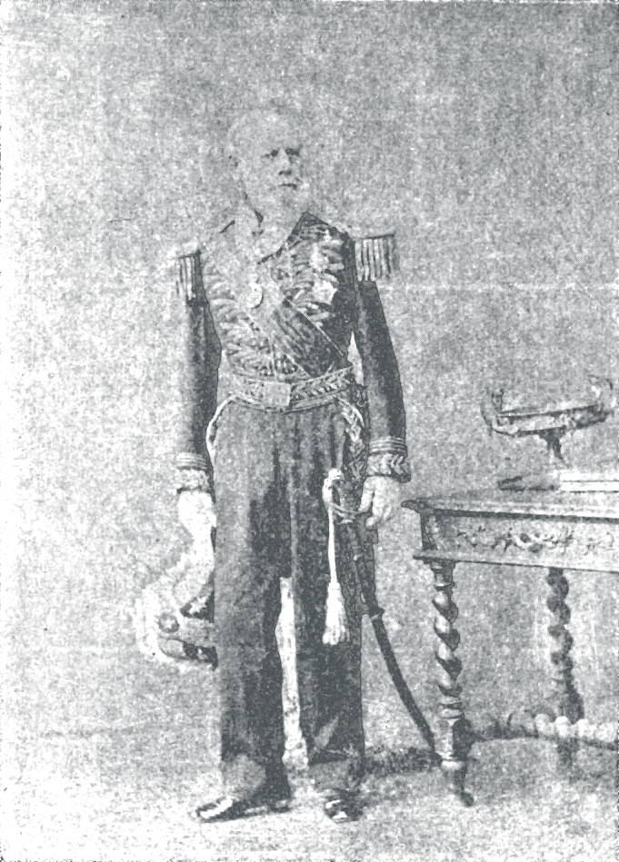 Manuel Marques de Sousa, the Count of Porto Alegre